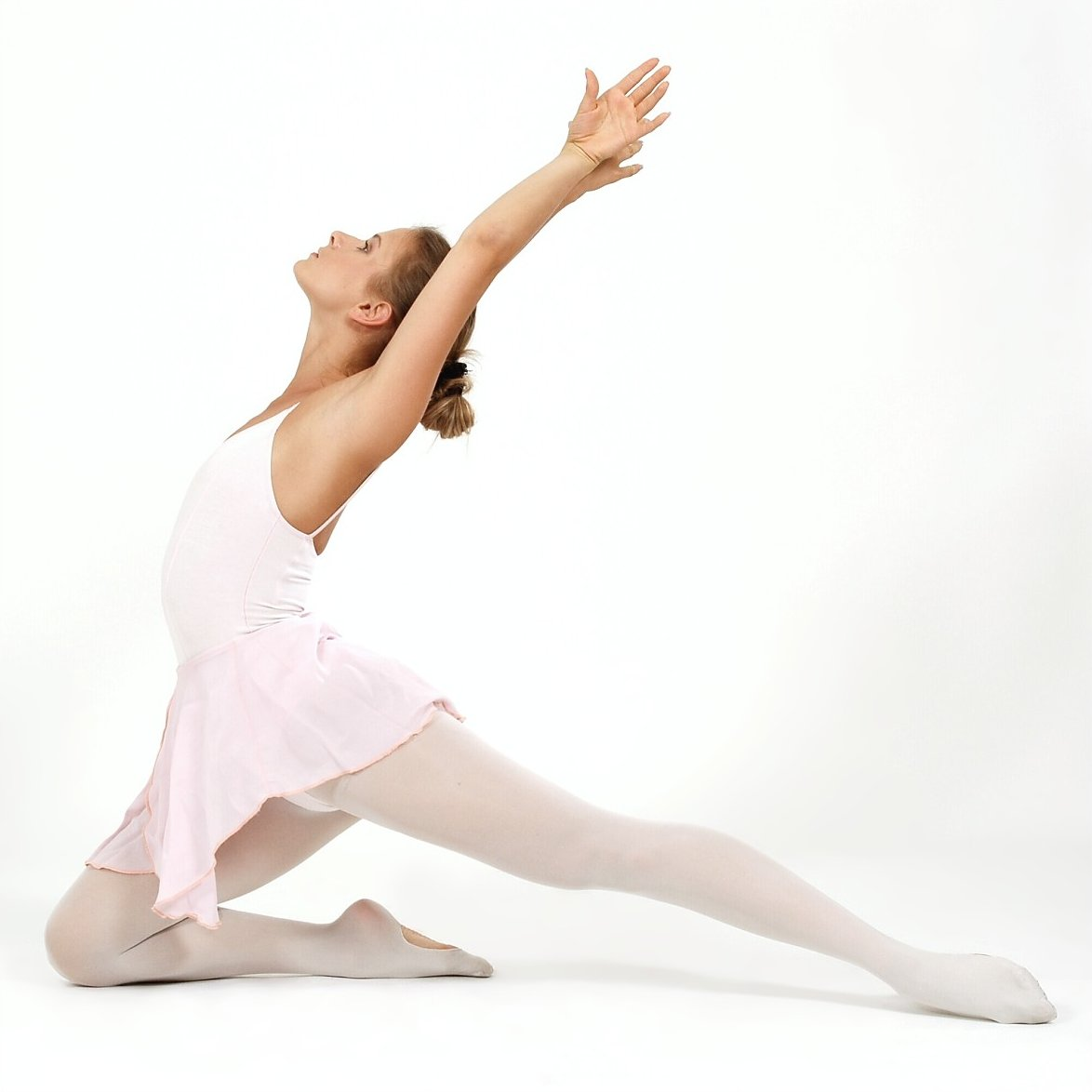 Classic ballet-dancer